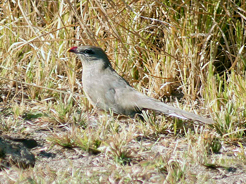 Sirkeer Malkoha Phaenicophaeus leschenaultii at Bharatpur, Rajasthan, India.